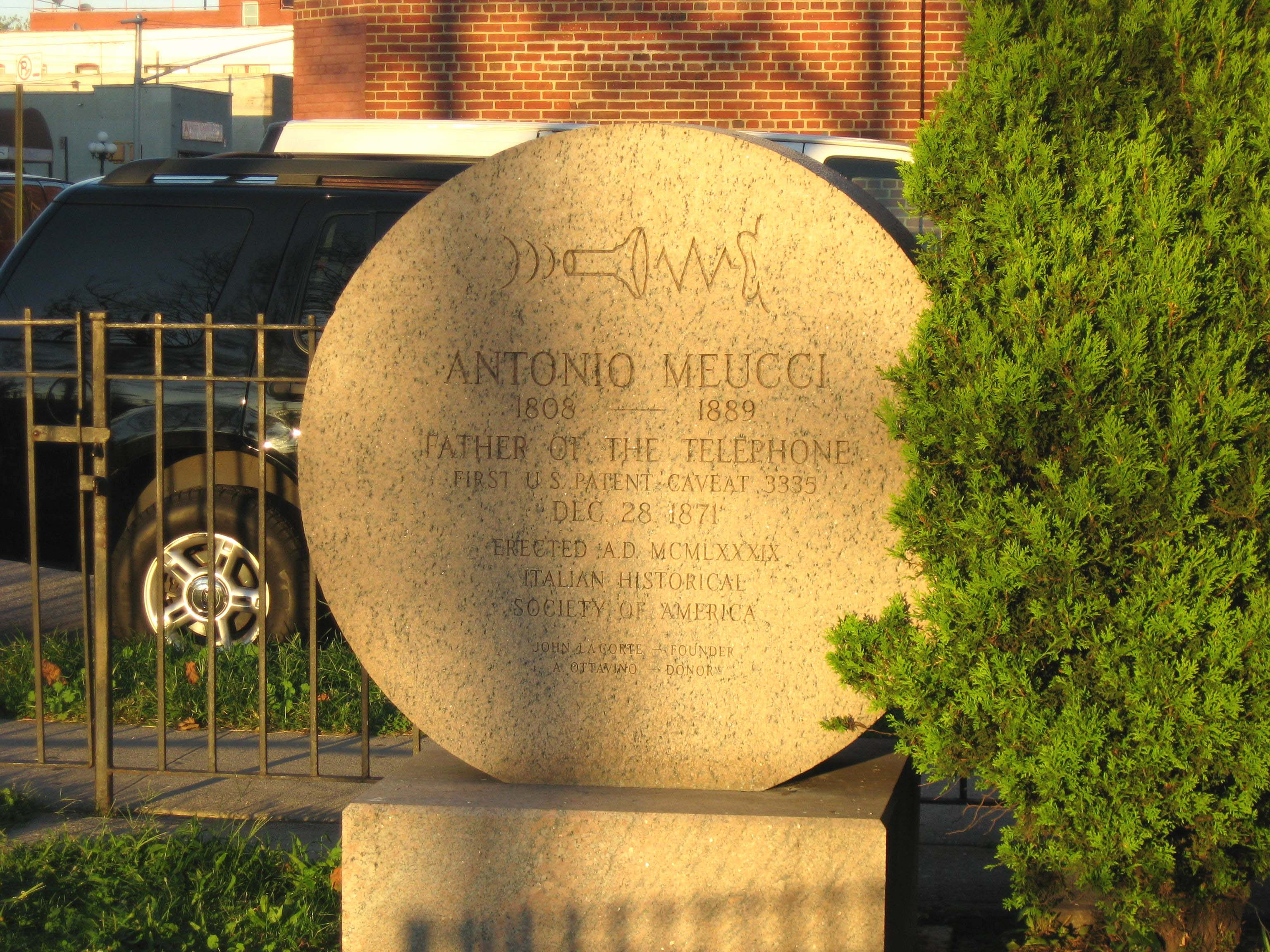 Looking east at monument to inventor Antonio Meucci in Meucci Triangle, west of the 86th Street telephone exchange in Gravesend, Brooklyn on a sunny late afternoon. Engraving depicts a type of receiver Meucci did not invent.